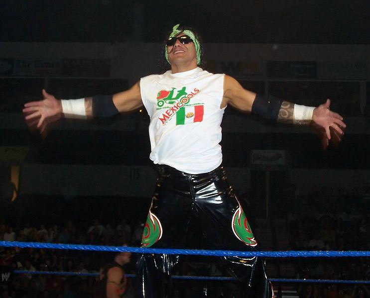 Photo of Psicosis during his tenure in the WWE as a member of The Mexicools.